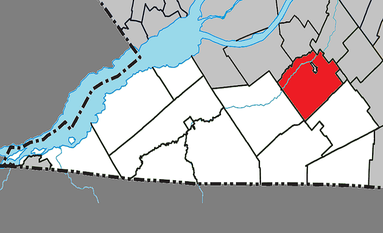 Location of Très-Saint-Sacrement, Quebec within Le Haut-Saint-Laurent Regional County Municipality.